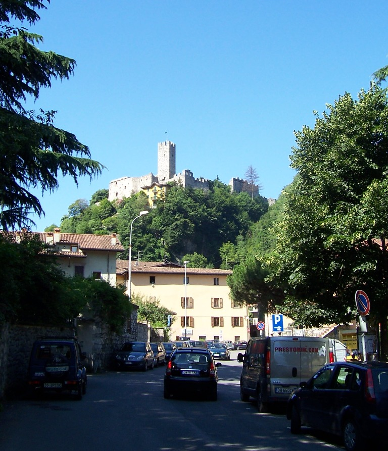 Panorama of Breno's castle from north, Val Camonica